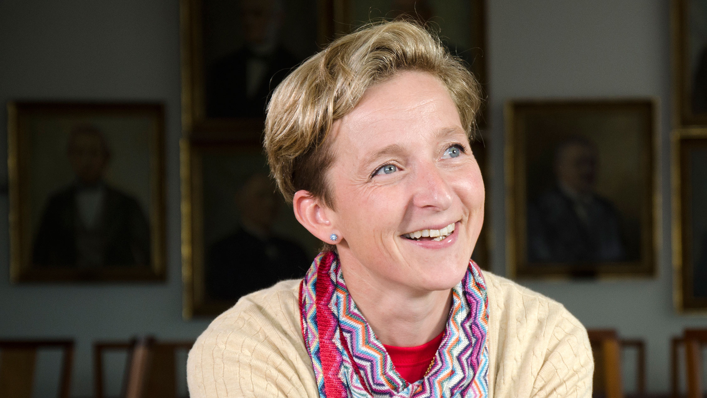 Lovisa Hamrin